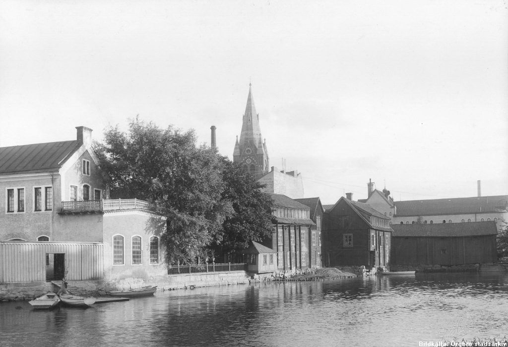 The house of Elgérus, a dyer, in Örebro, Sweden